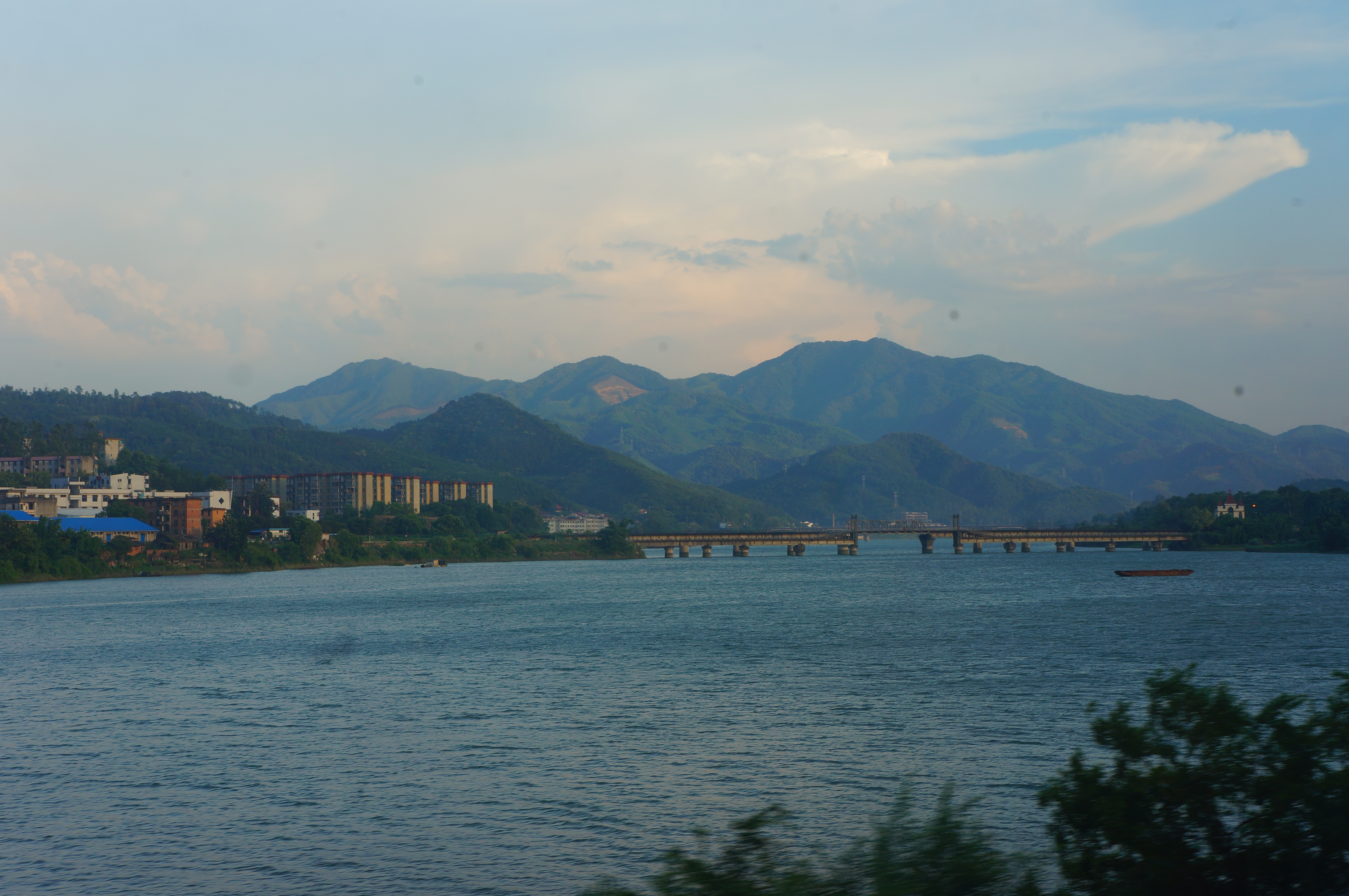 201708 Qingzhou, Shaxian